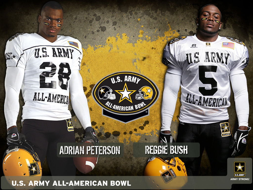 Adrian Peterson and Reggie Bush U.S. Army All American Bowl